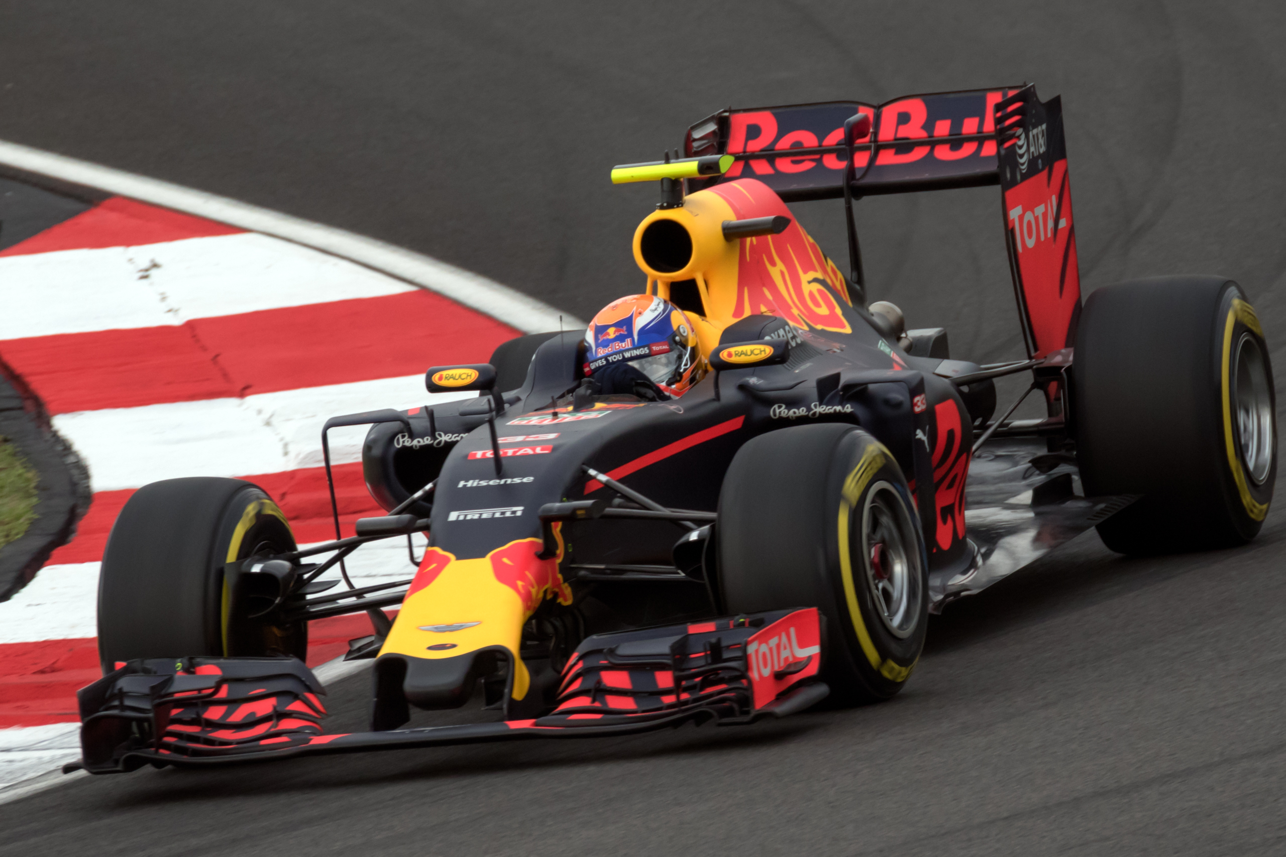 Formula One 2016 Rd.16 Malaysian GP: Max Verstappen (Red Bull)